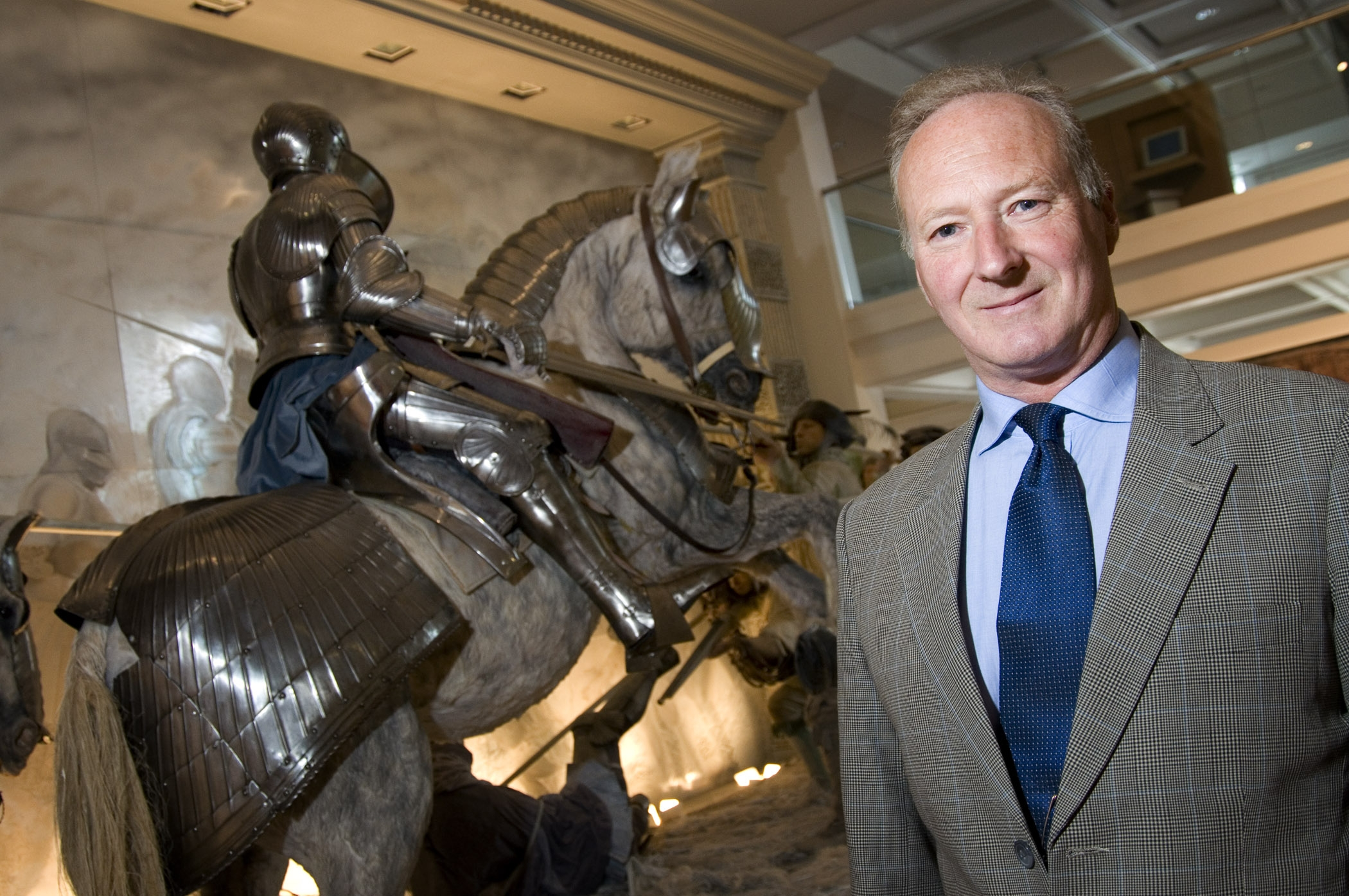 Lieutenant-General Jonathon Riley CB DSO MA PhD and Master of the Armouries.